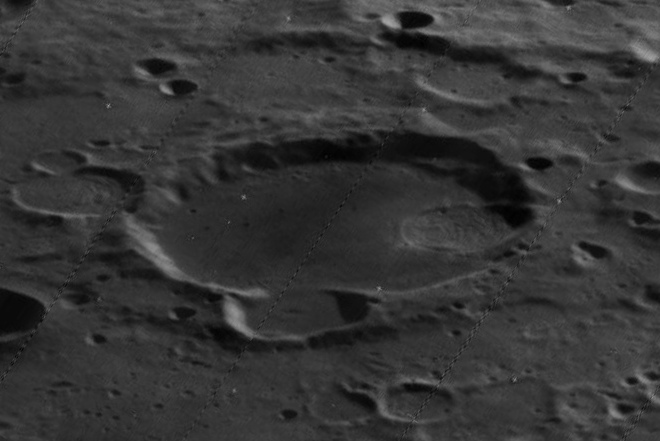 Oblique view of Baldet, on the moon.